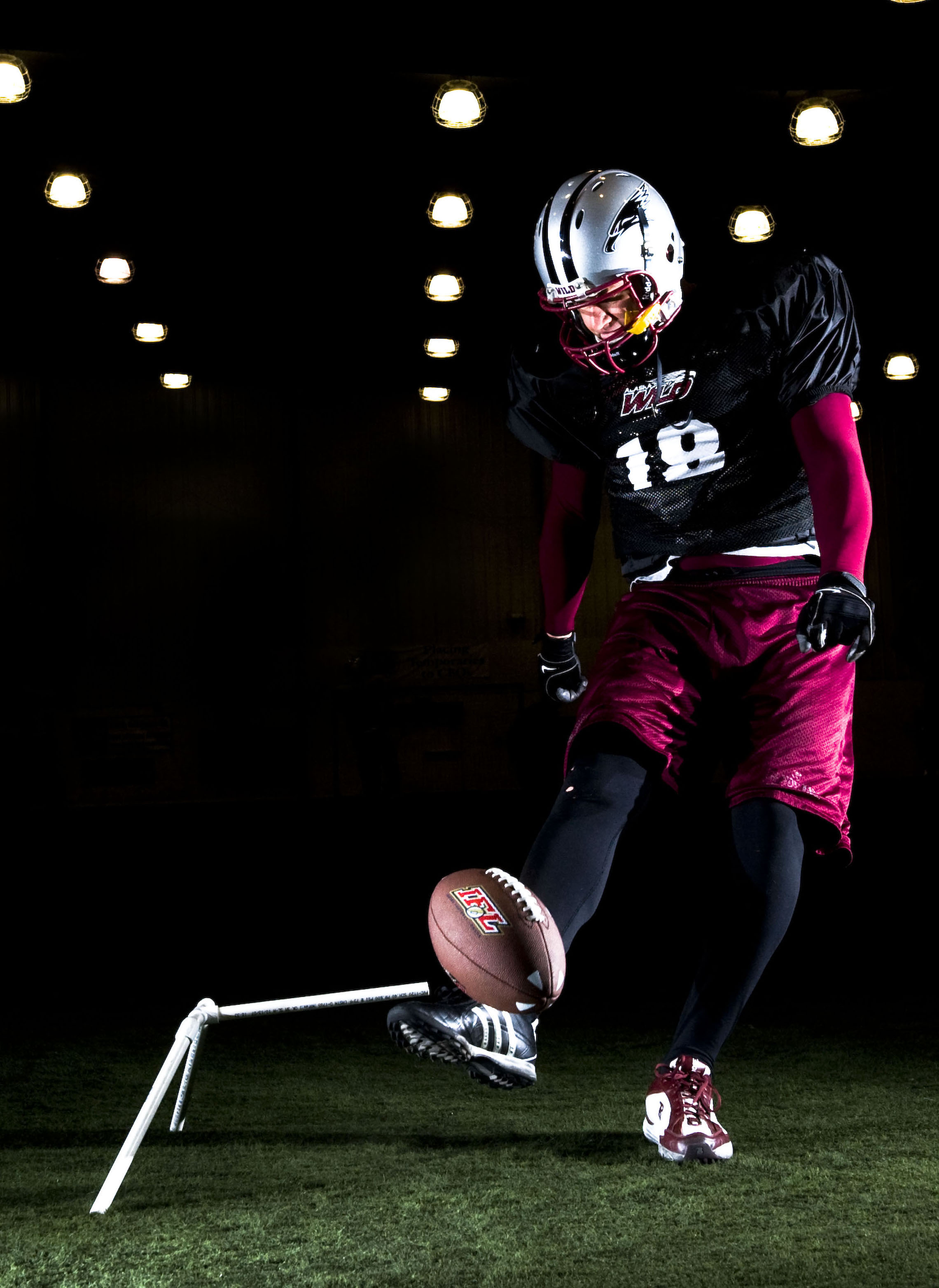 Tech. Sgt. Jeffrey Tongate kicks the ball during practice April 21, 2009. Tongate is a firefighter from the 3rd Civil Engineer Squadron and he also plays for the Alaska Wild, an indoor professional football team. VIRIN: 090504-F-3108S-002